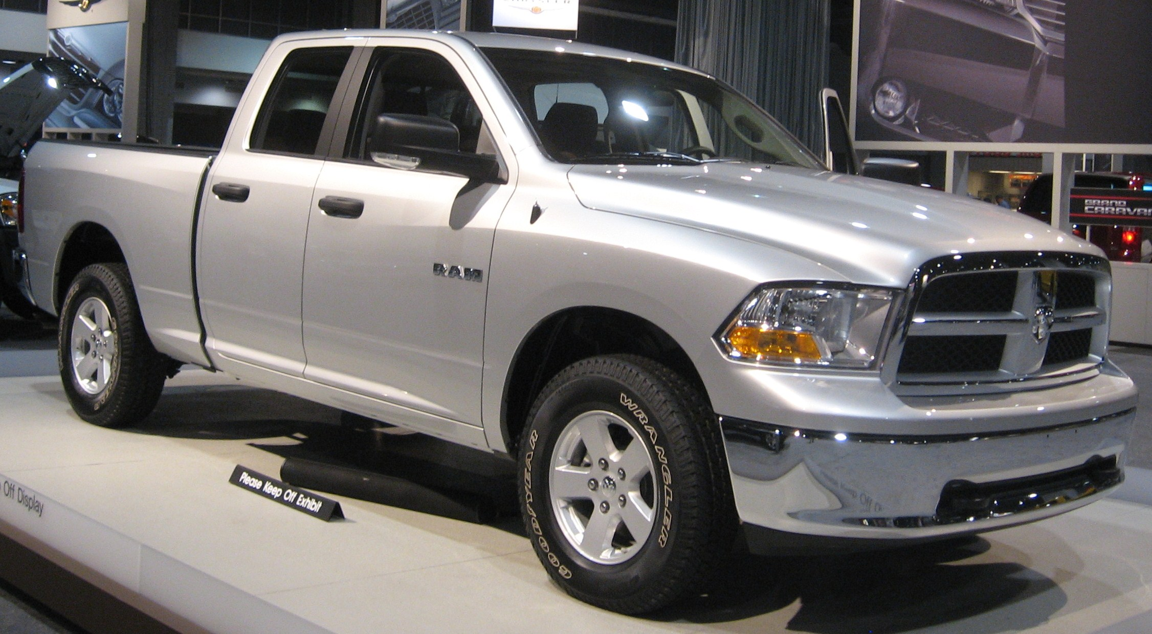 2009 Dodge Ram photographed at the 2008 Washington DC Auto Show.